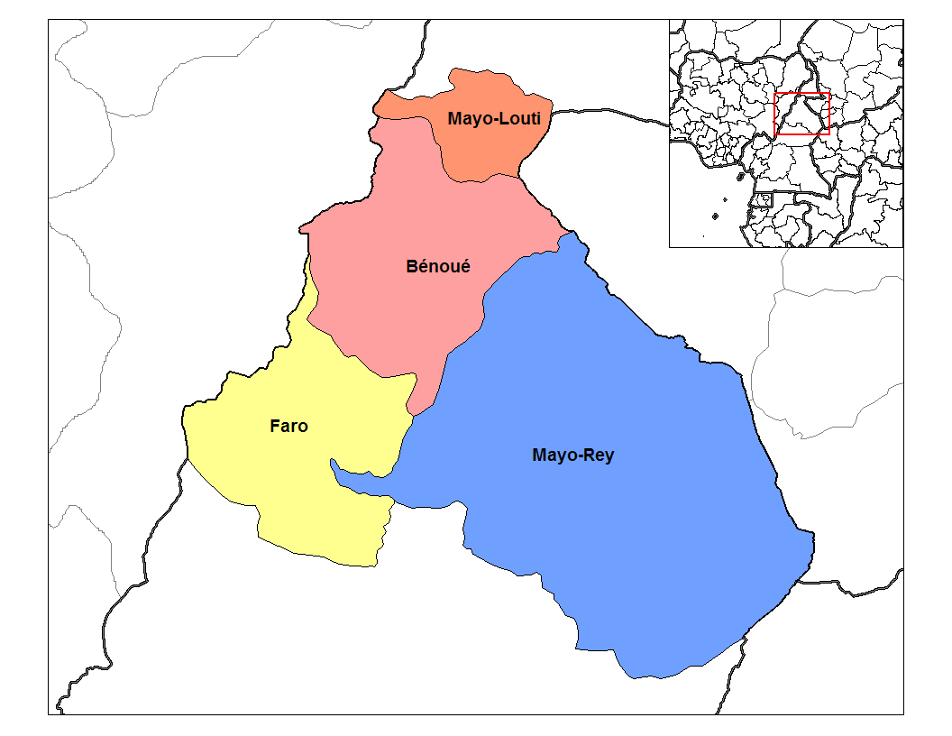 Map of the divisions of North province in Cameroon. Created by Rarelibra 19:55, 1 September 2006 (UTC) for public domain use, using MapInfo Professional v8.5 and various mapping resources.